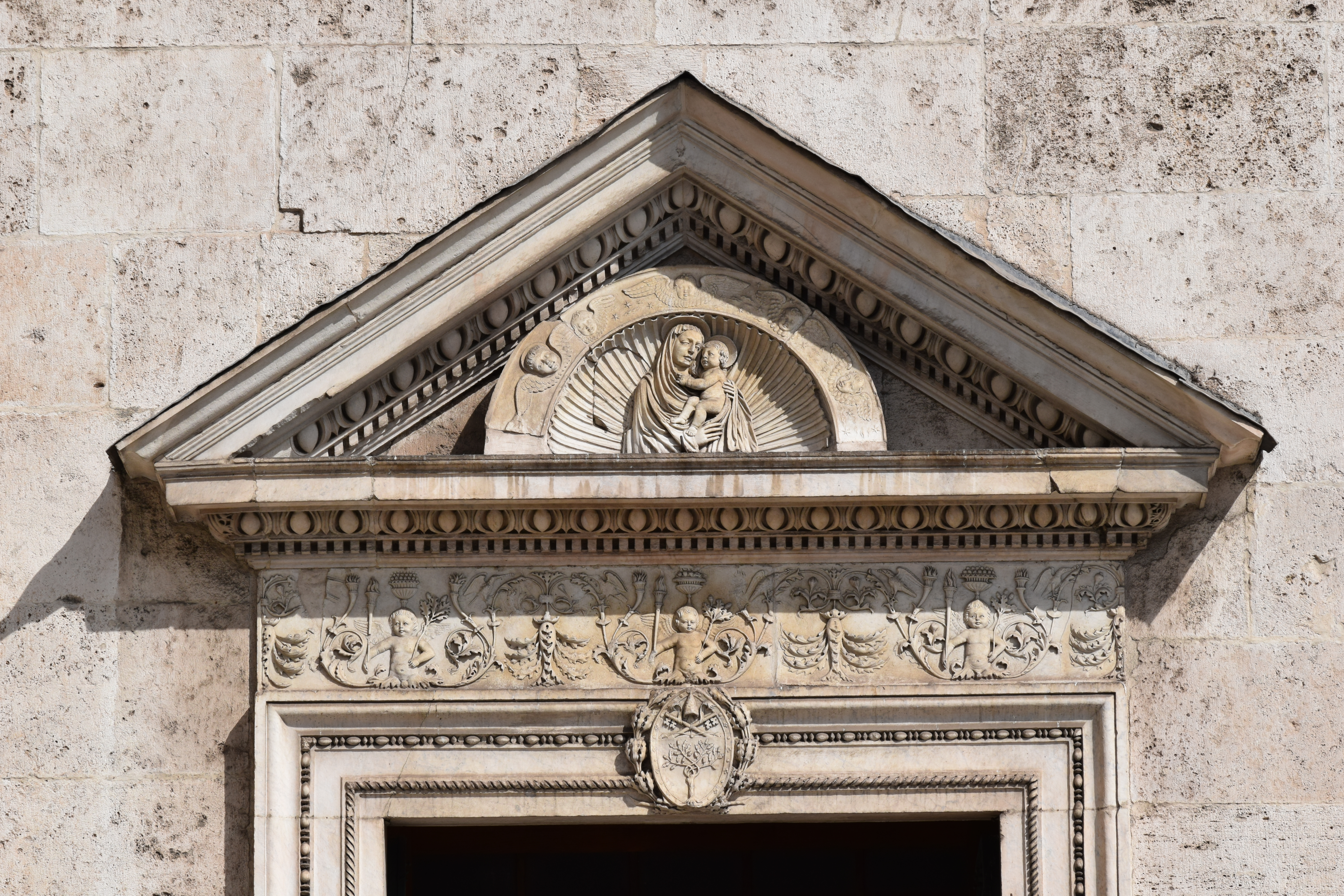 Pediment and frieze of the main door of the Basilica of Santa Maria del Popolo, Early Renaissance work from the 1470s, probably by the school of Andrea Bregno. A sculpture of the 'Madonna and the Child' set in a scallop shell. The rim of the niche is decorated with cherubs among six-pointed stars and whiffs of clouds. The frieze has a carved decoration of artificial foliage, pecking birds and putti who are holding torches and oak branches in their hands and carrying bowls of fruit on their heads. The coat-of-arms of Pope Sixtus IV on the lintel is encircled by oak branches.